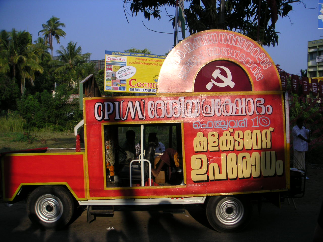 Communist Party of India (Marxist) propaganda vehicle in Ernakulam. Photo: Soman